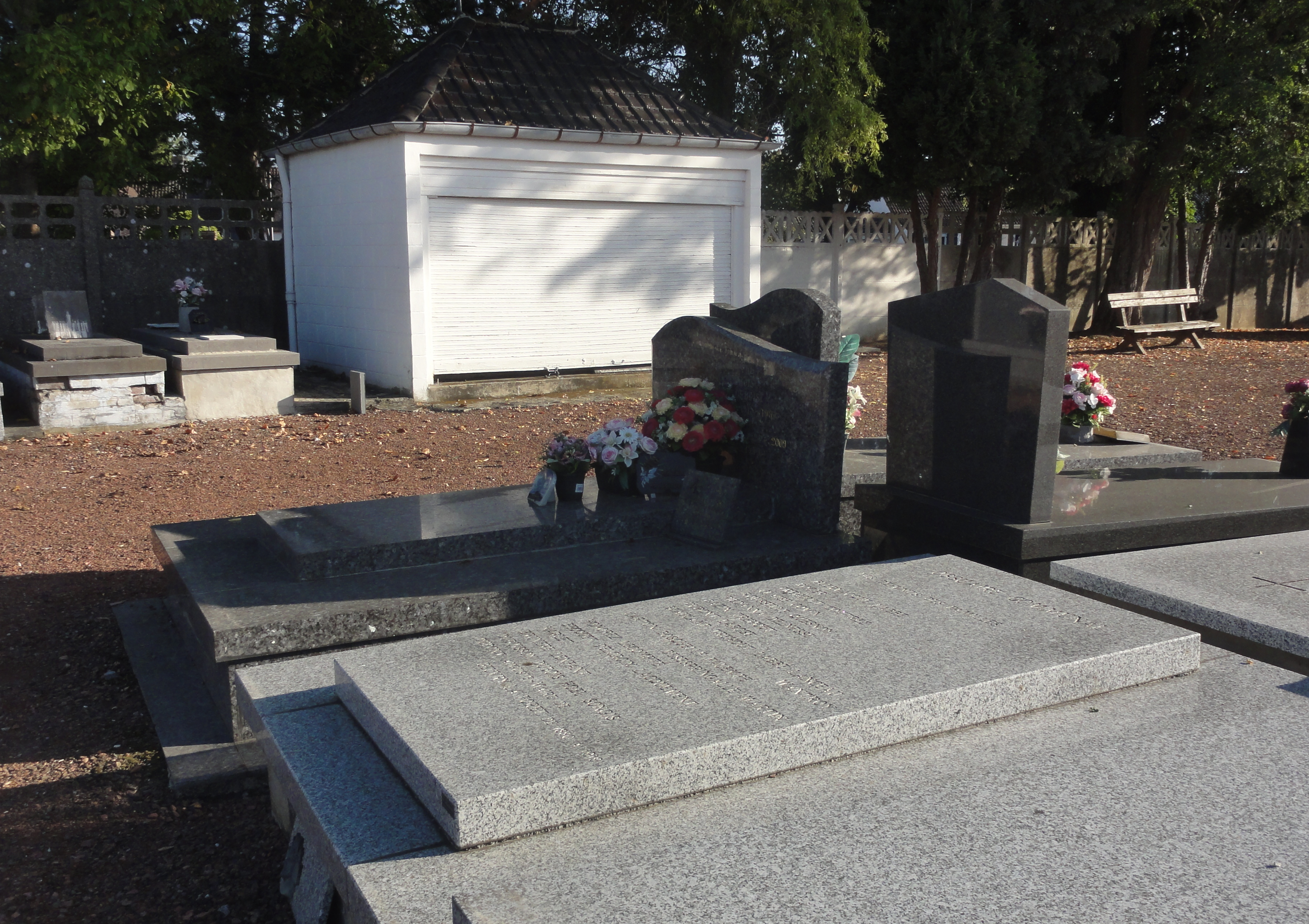 Depicted place: Q67927047